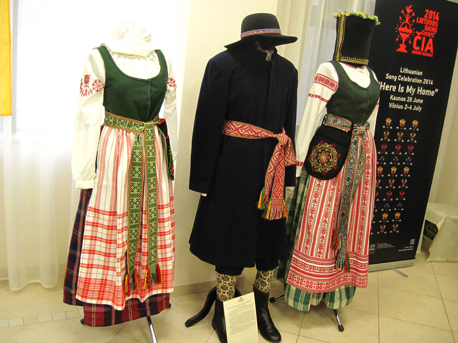 Lithuanian traditional costumes (reconstruction). Klaipėda Region. Exhibition in Kyiv.